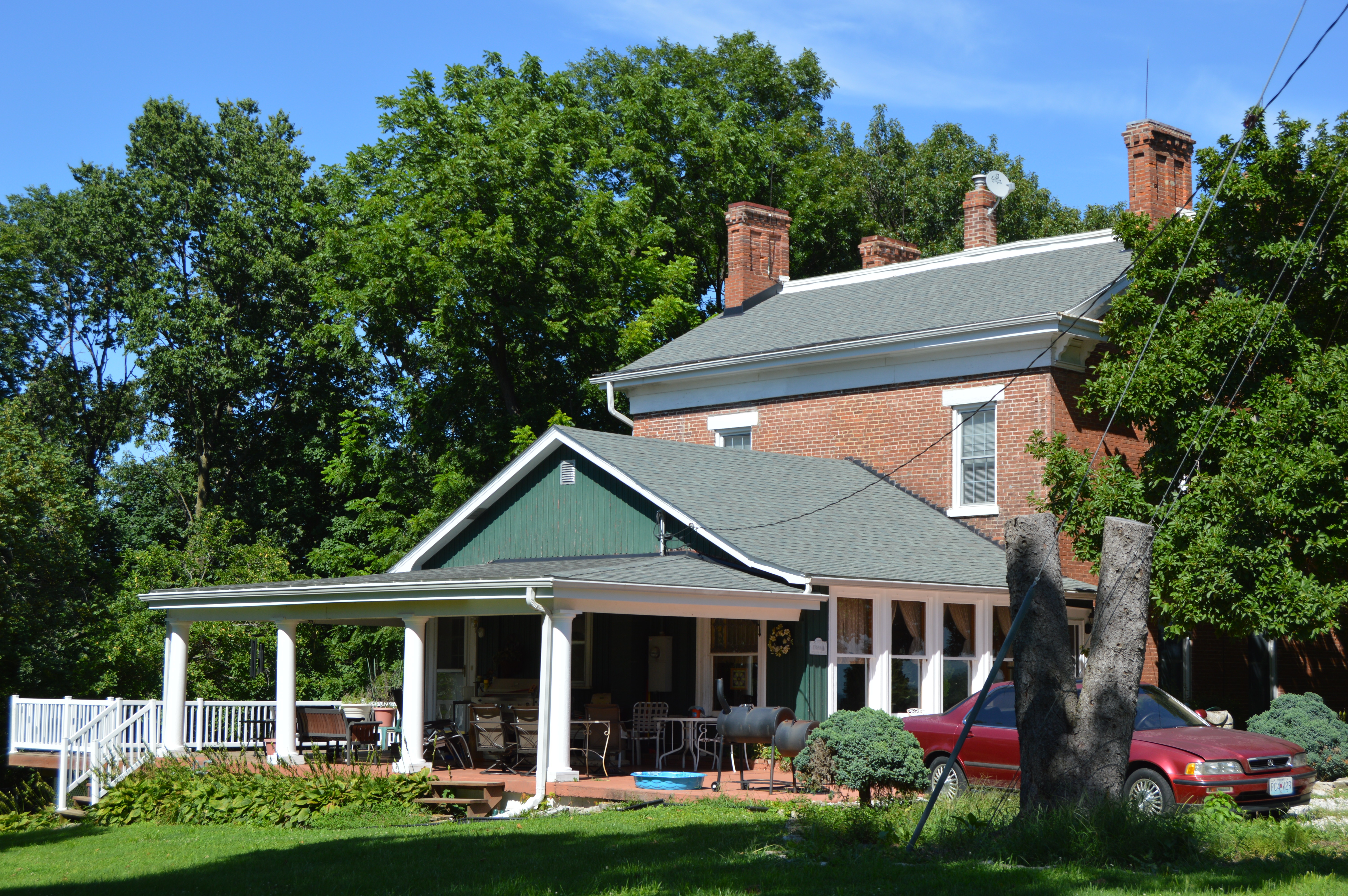 Rear and southern side of the A.C. Waltman House, located at 302 Lewis Street in La Grange, Missouri, United States. Built in 1853, it is listed on the National Register of Historic Places.